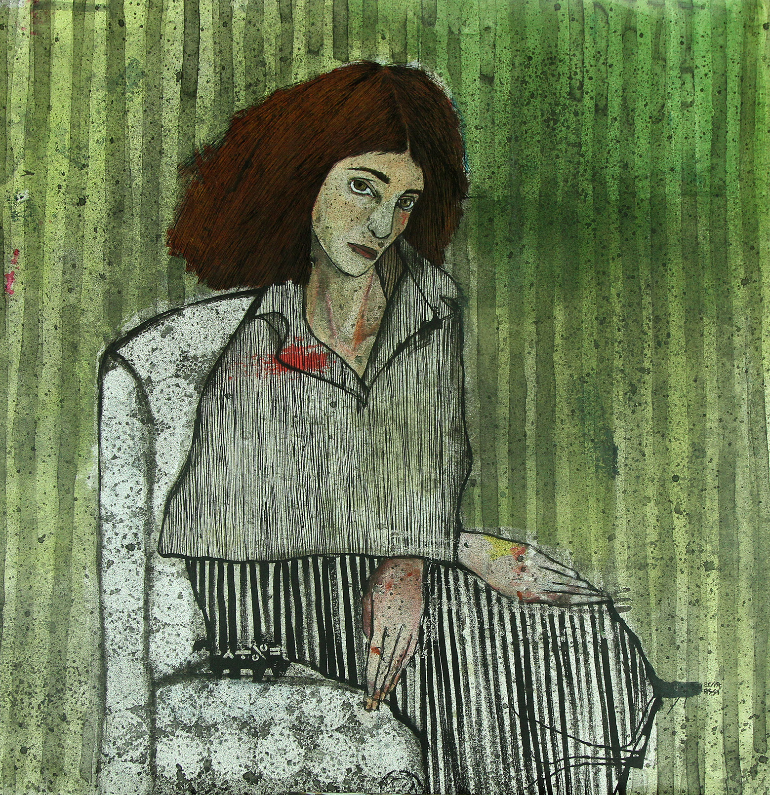 painting